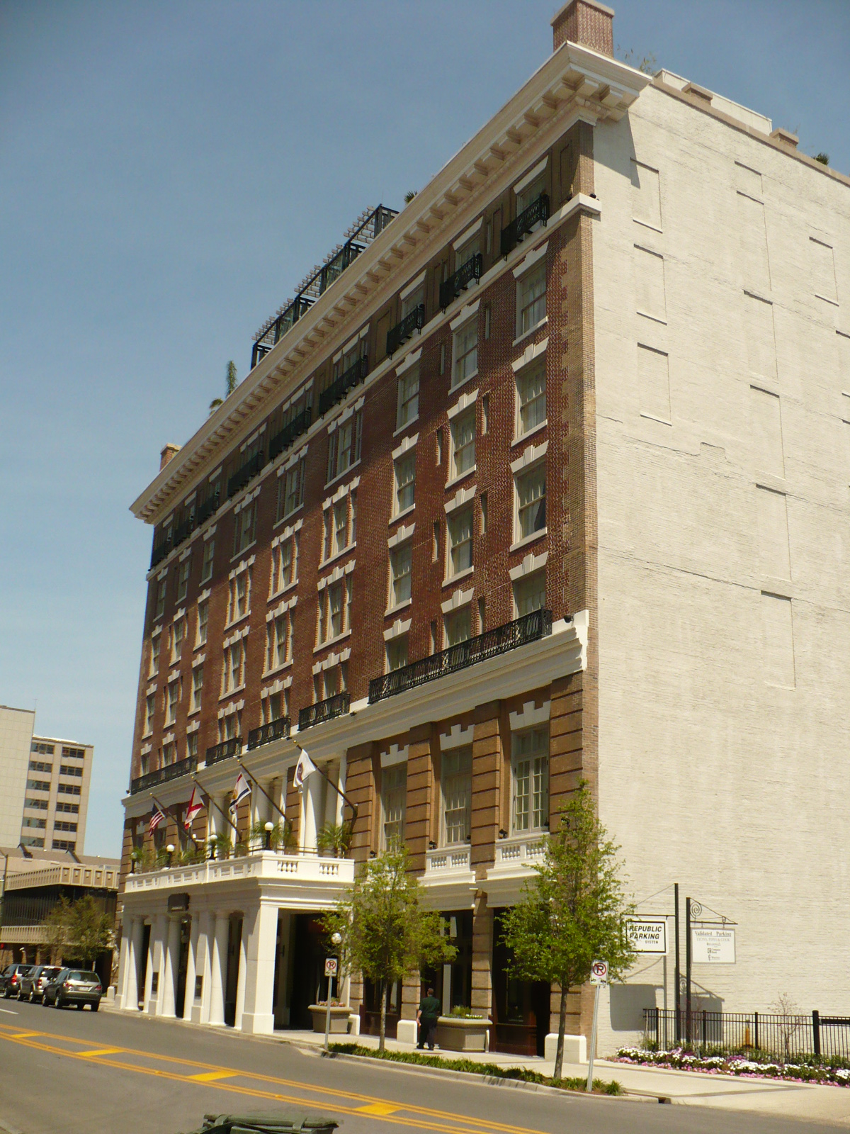 26 North Royal Street (Battle House Royale/Battle House Hotel) within the Lower Dauphin Street Historic District in Mobile, Alabama. 7 stories. (c. 1908).